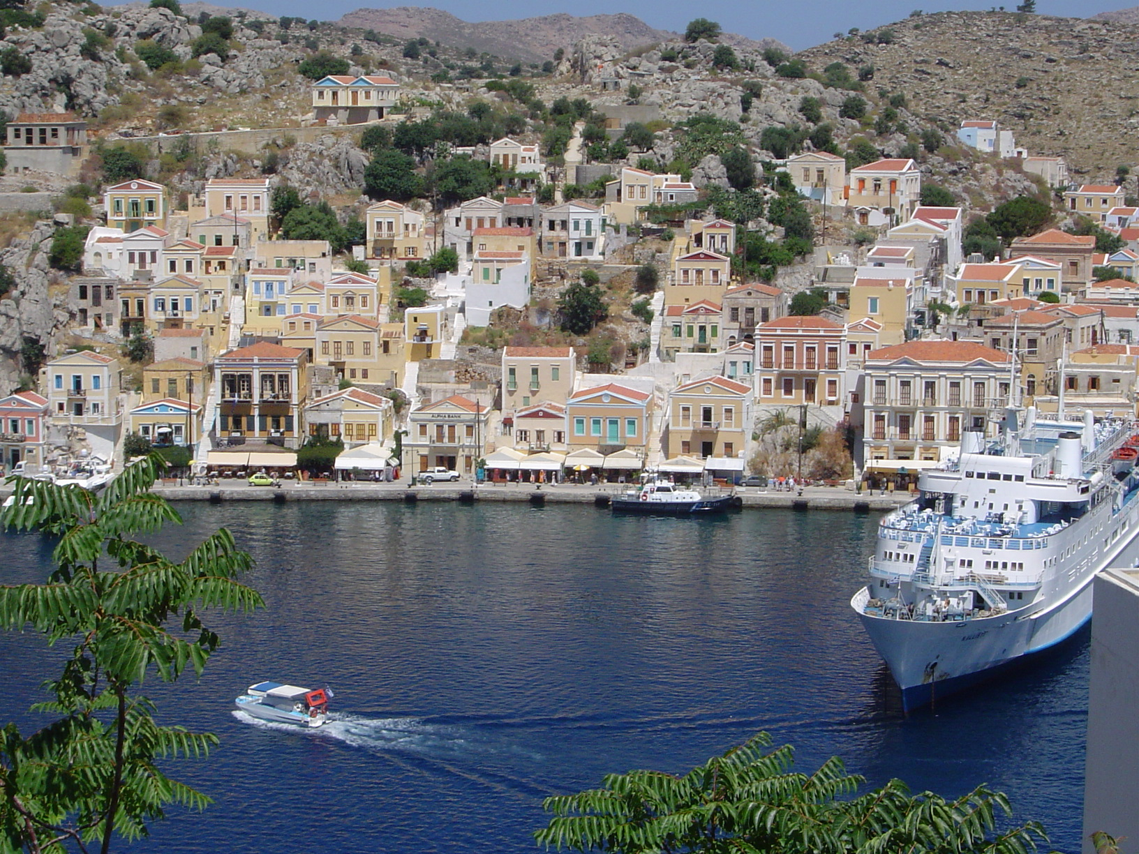 A view of the town of Gialos on Symi island in Greece. Author: Petra Pospisilova